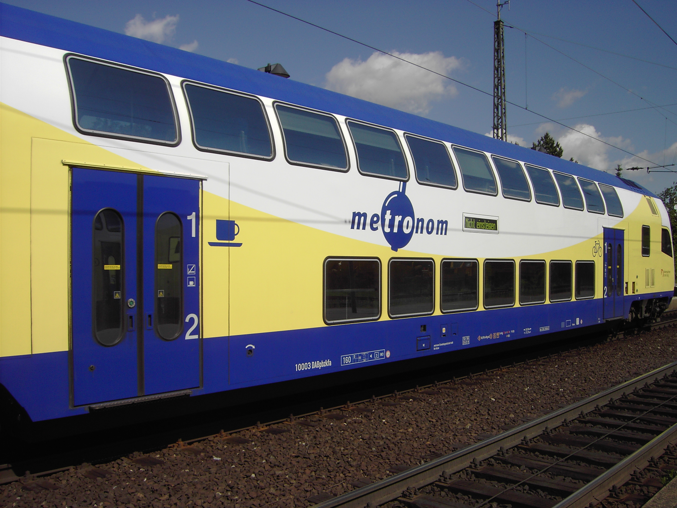 Double deck rail car of metronom Eisenbahngesellschaft in Uelzen.